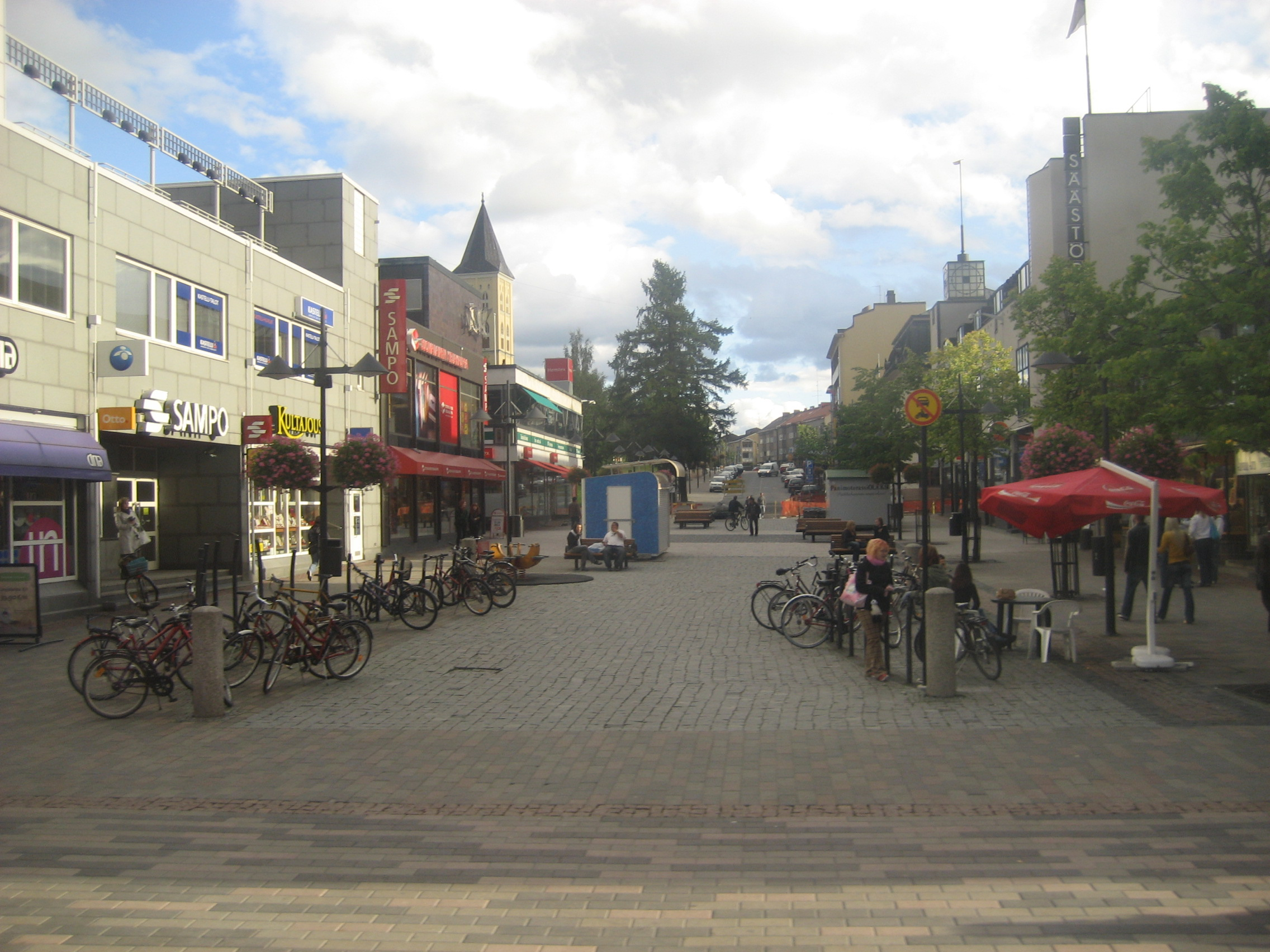 Kauppakatu street in Lappeenranta, Finland